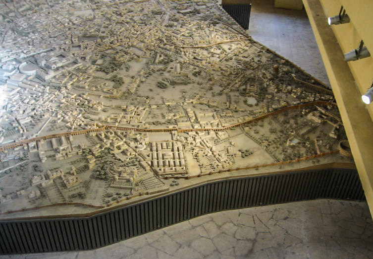 Model of ancient Rome, made by Gismondi